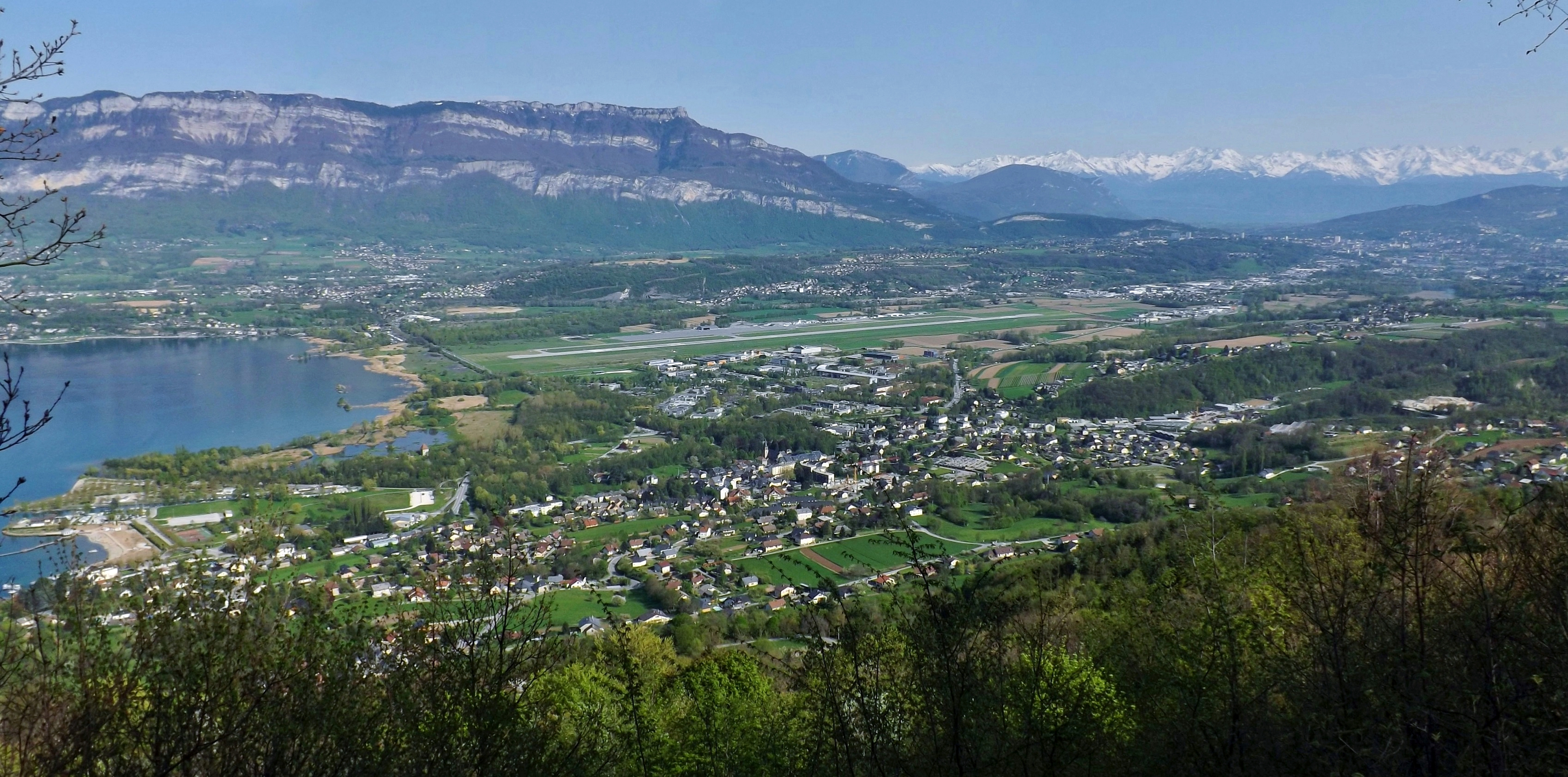 Sight from the mont du Chat mount of the northern end of the cluse de Chambéry valley in Savoie, France.